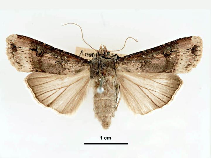 Agrotis ipsilon female